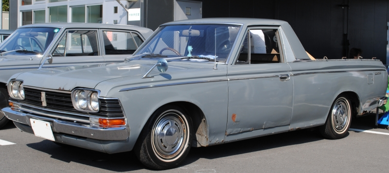 Toyota Crown Pickup.